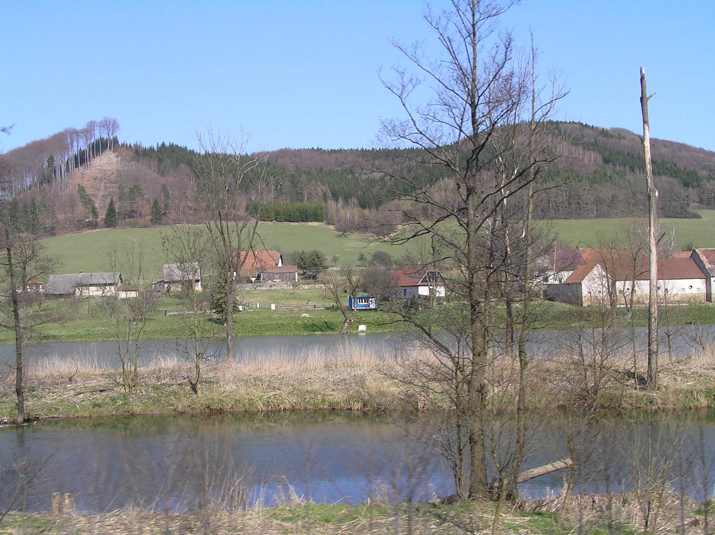 Perná is the settlement in the Pardubice Region, Czech Republic, now it si the part of the village Orlické Podhůří